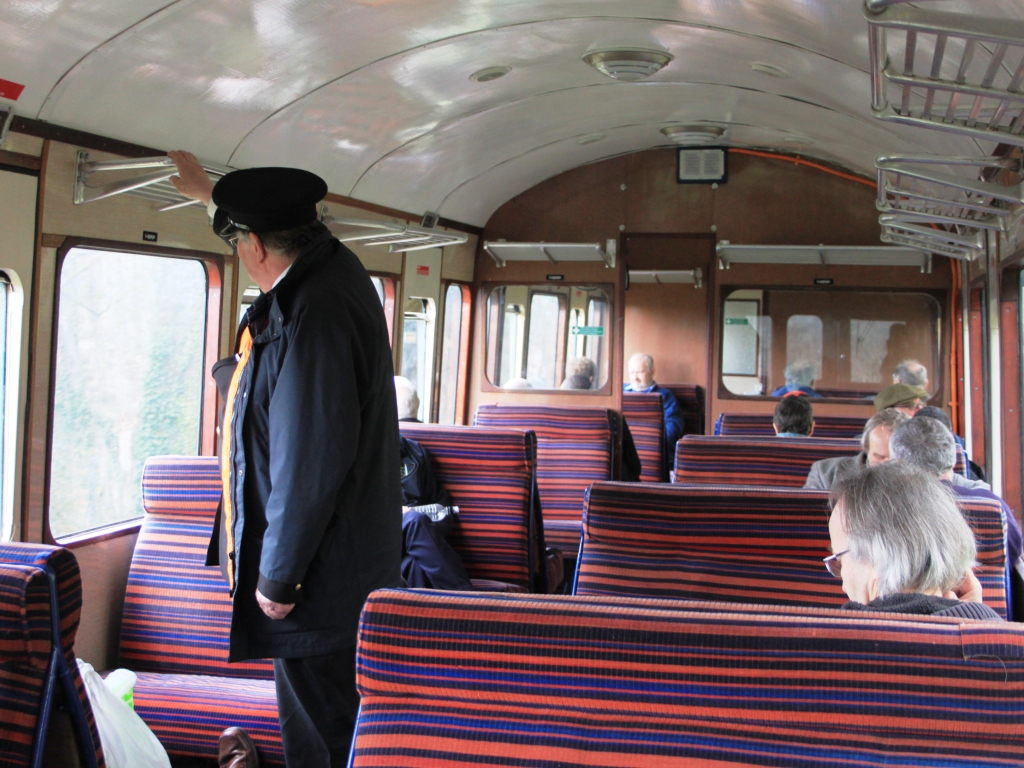 Inside the South Devon Railway's preserved diesel railcar W55000. Although the exterior has been restored in its original British Rail green livery, the seats have a covering that would have been used in its final years of service.